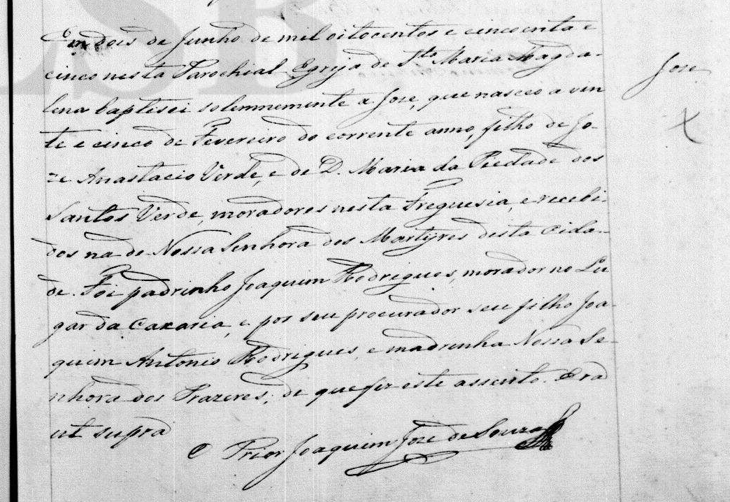 Baptism record of Cesário Verde (1855-1886), Portuguese poet. At Madalena Parish, Lisbon.